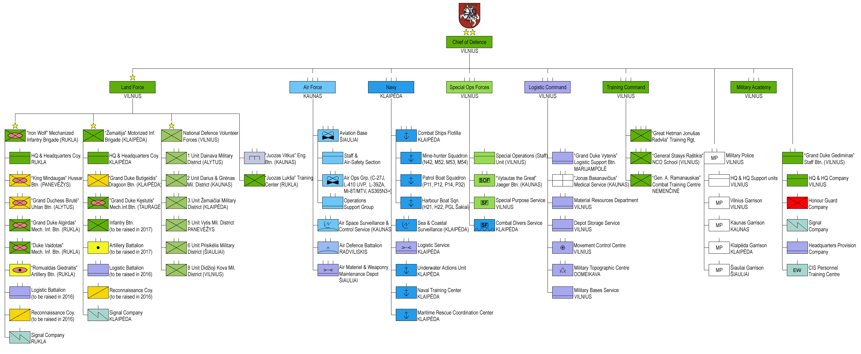 Structure of the Lithuanian Armed Forces in 2016